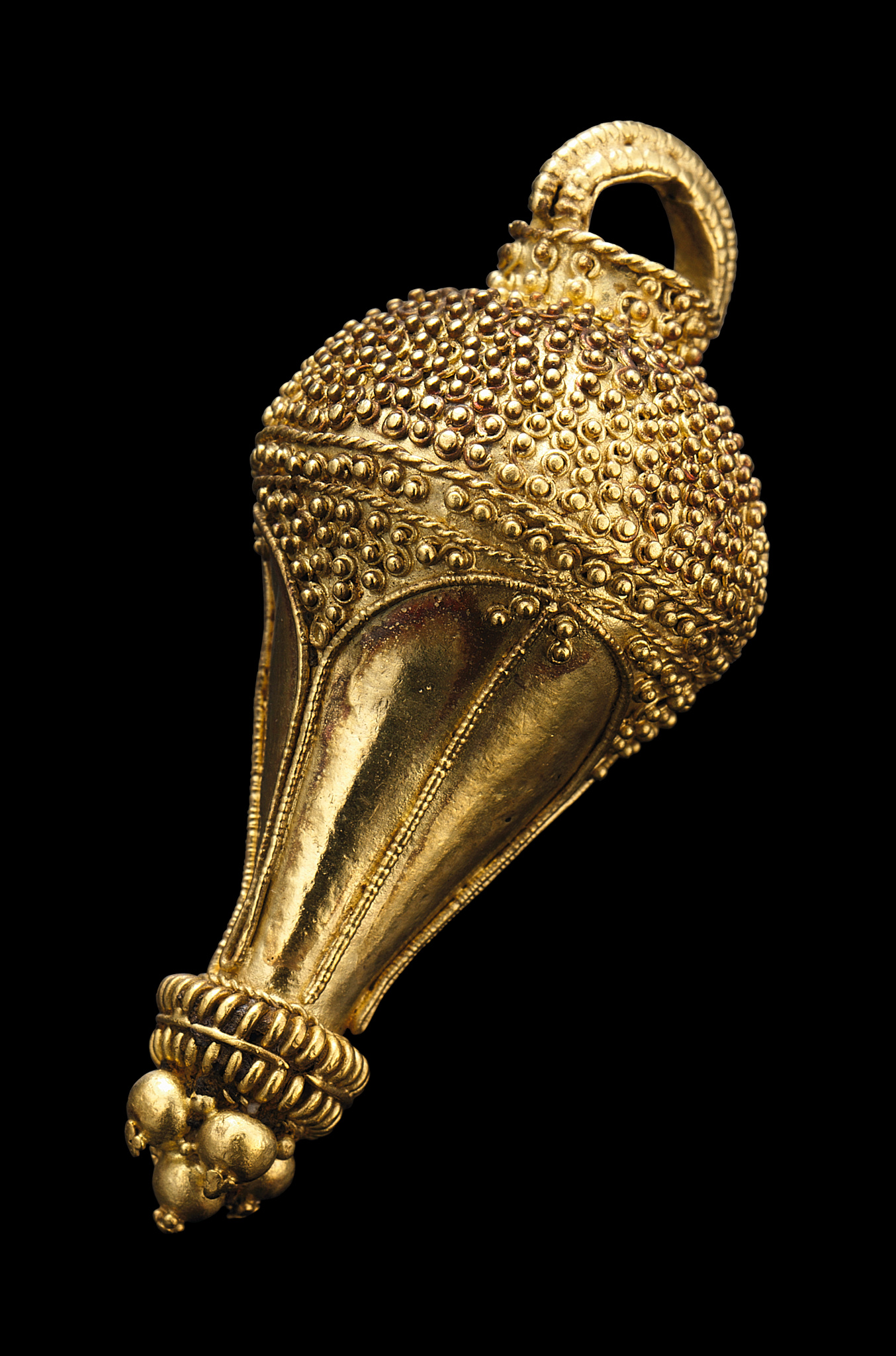 A Trinket Berlock from the graveyard Darzau